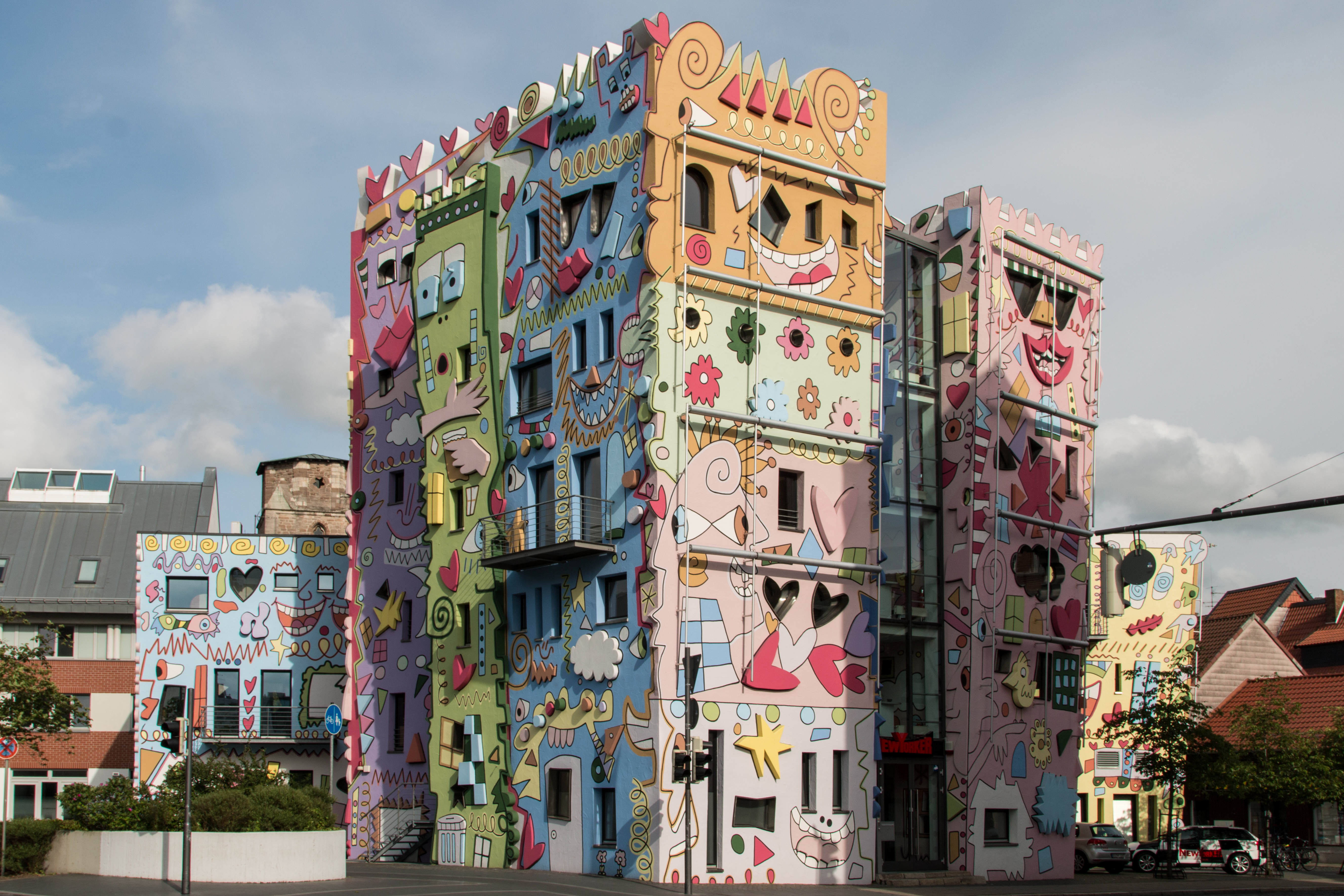 Happy Rizzi House in Braunschweig (Germany).